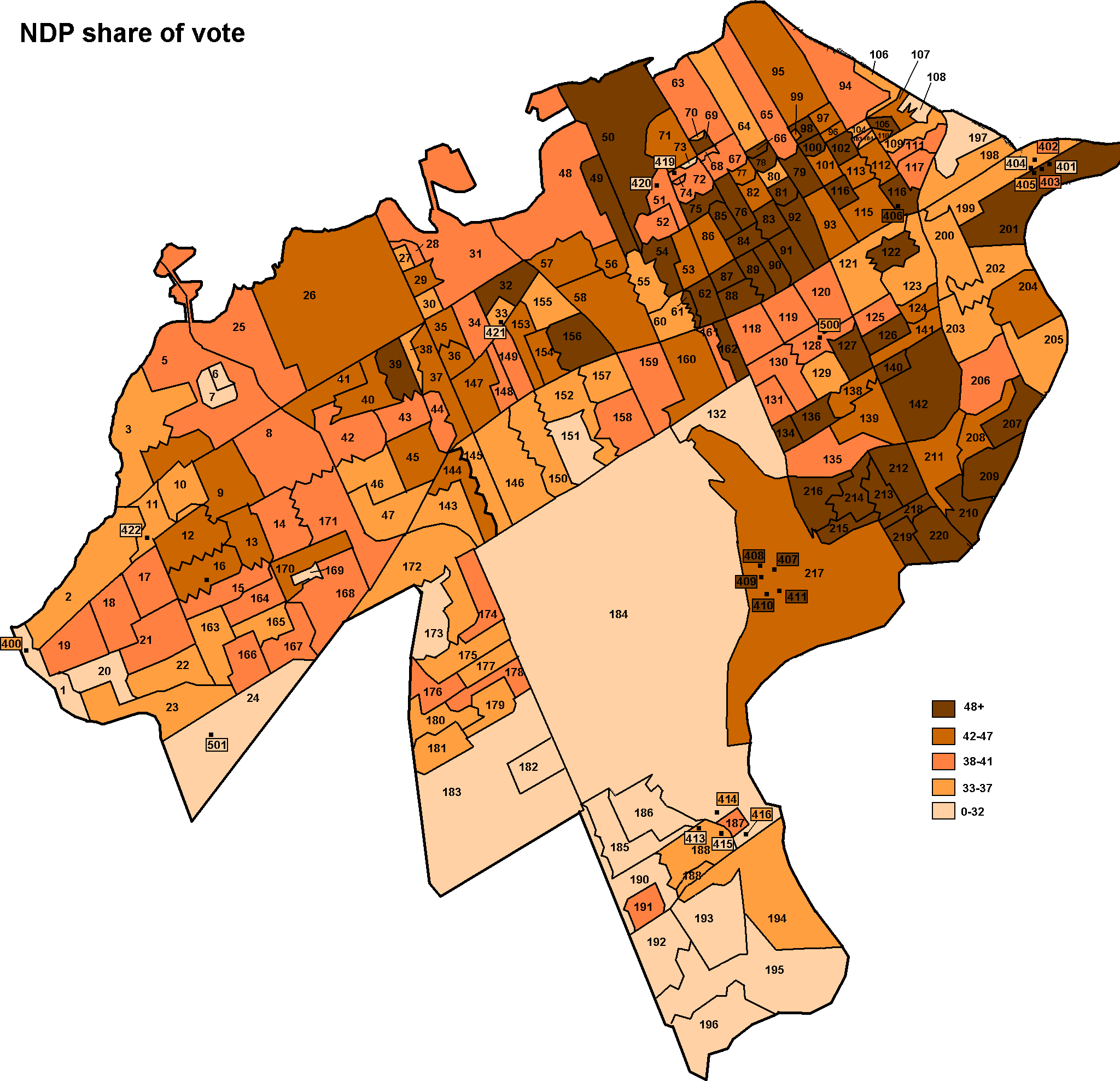 Map of NDP results in Ottawa Centre in 2004